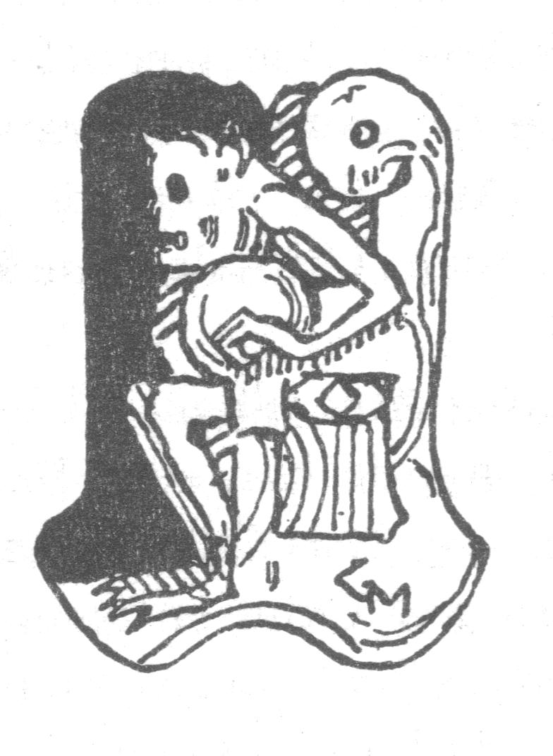 Gerhard Munthe: Illustration for Ynglingesaga. Snorre 1899-edition. 16